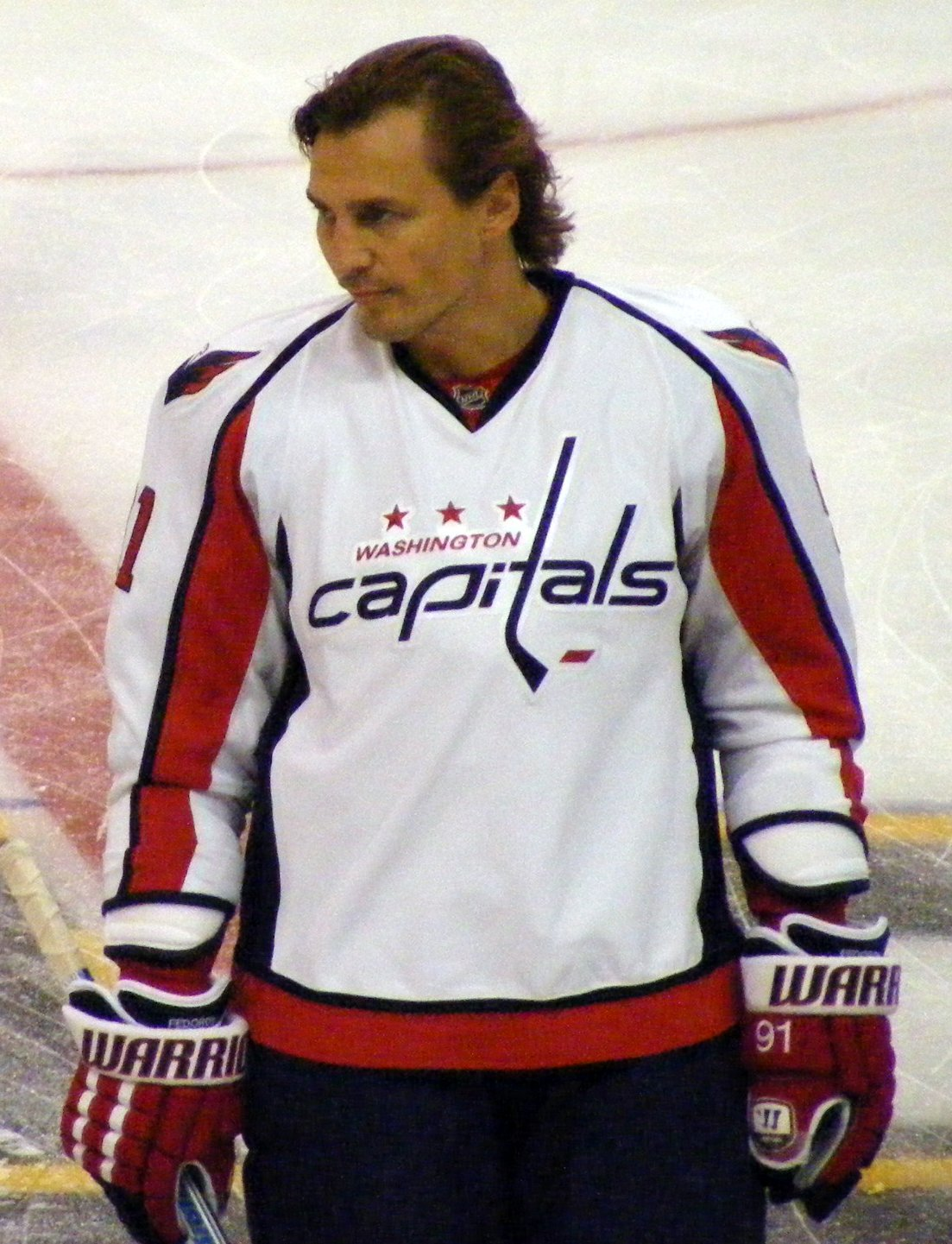 Sergei Fedorov, Washington Capitals vs Boston Bruins, September 27, 2008